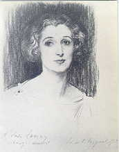 Portrait of Lady Hazel Lavery (née Martyn)